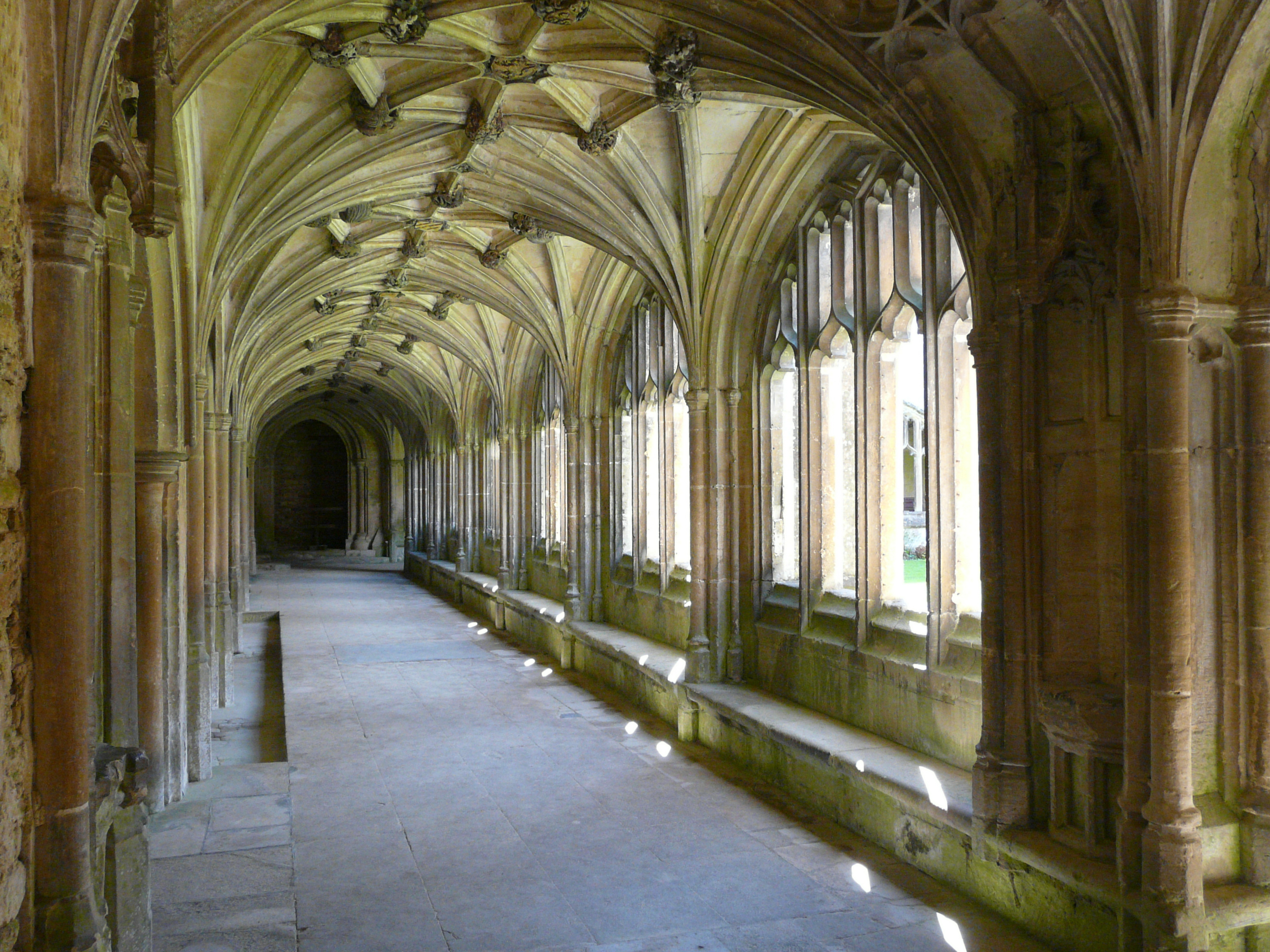 Lacock Abbey Cloisters.